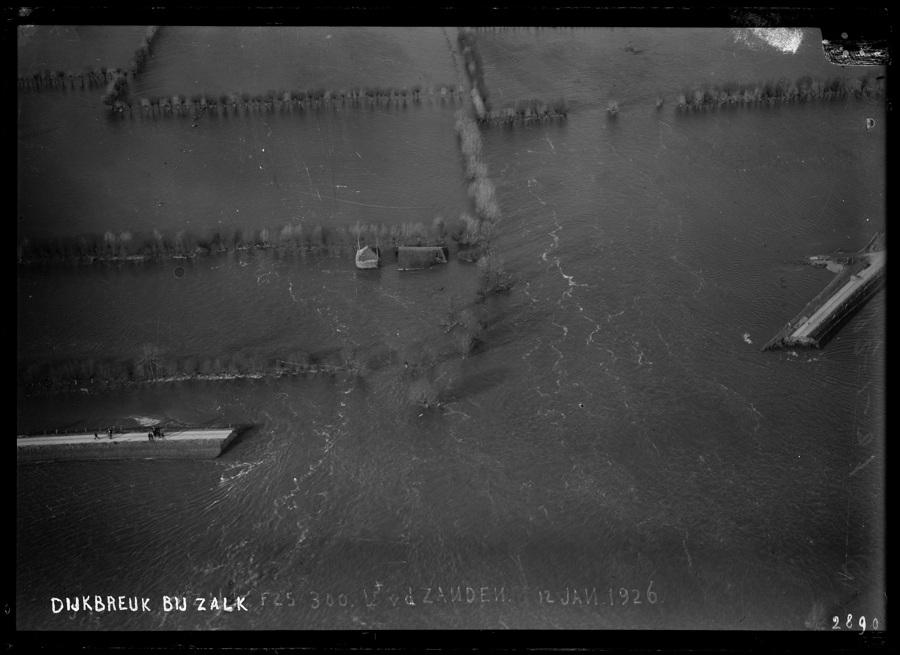 Aerial photograph of Zalk, The Netherlands